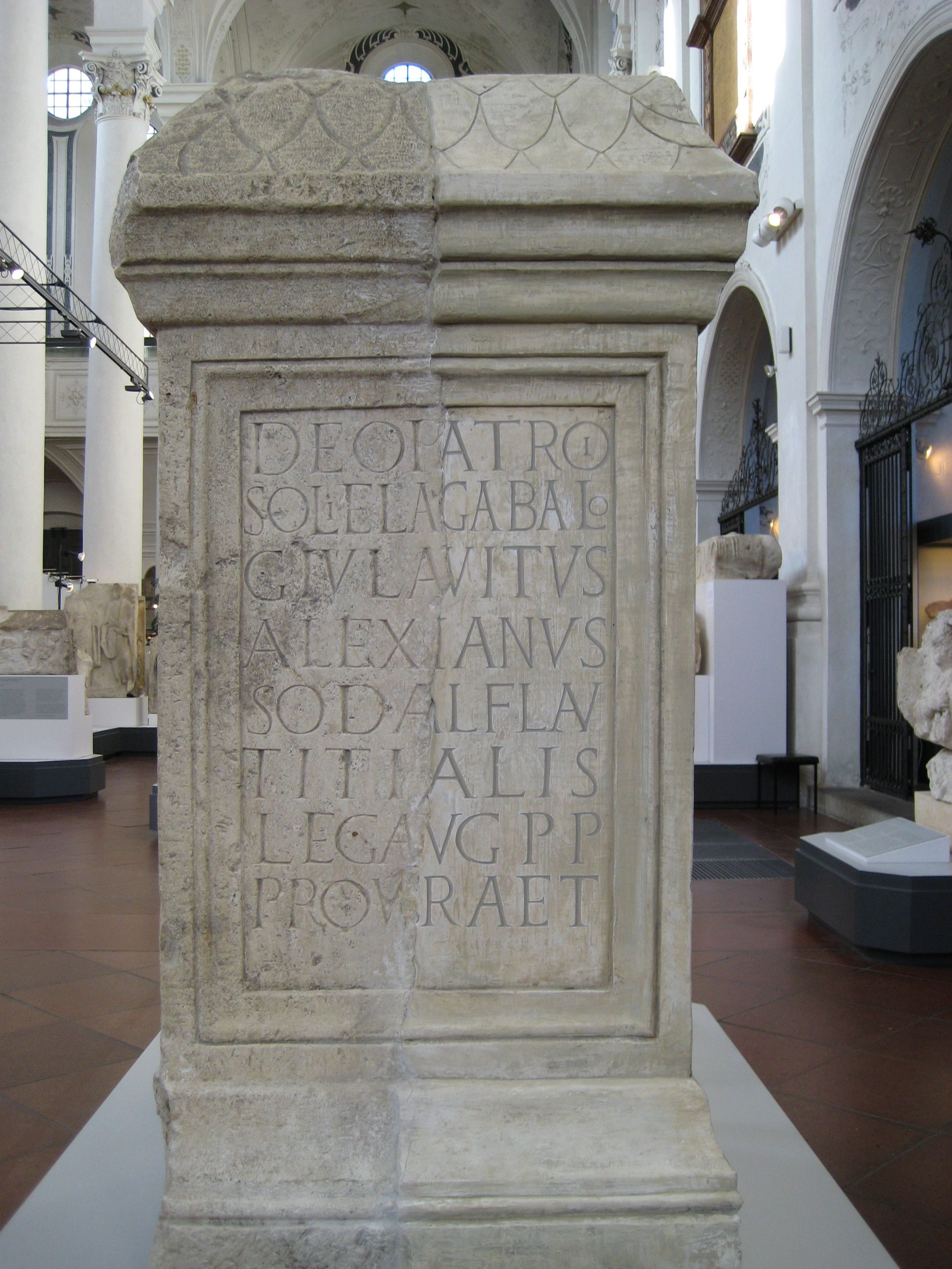 Altar of the god Elagabalus, dedicated by Gaius Iulius Avitus Alexianus, about 196/200 A.C: Römisches Museum Augsburg, lap. 331